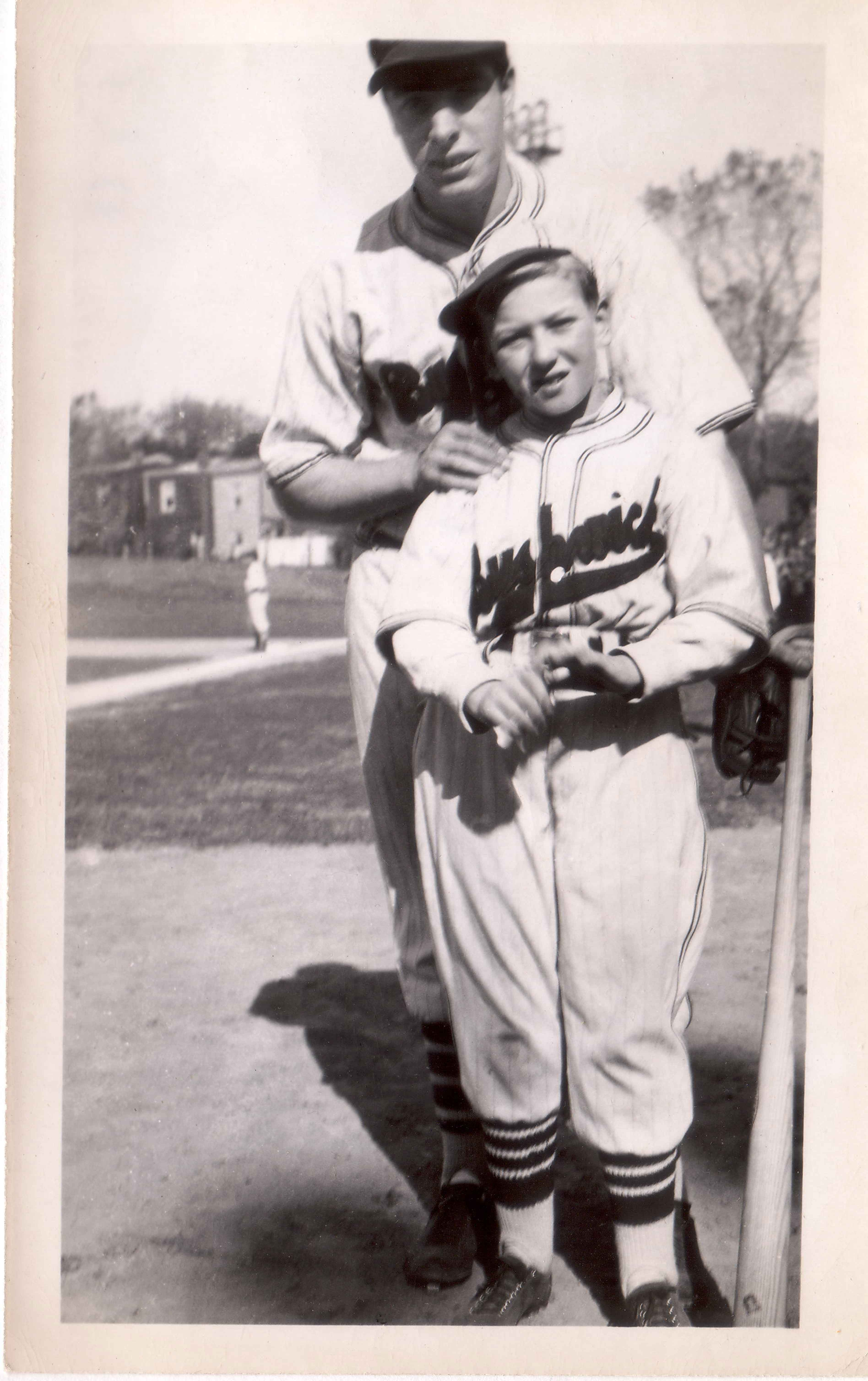 Charlie Hyman and Joe DiMaggio in Bushwicks uniform